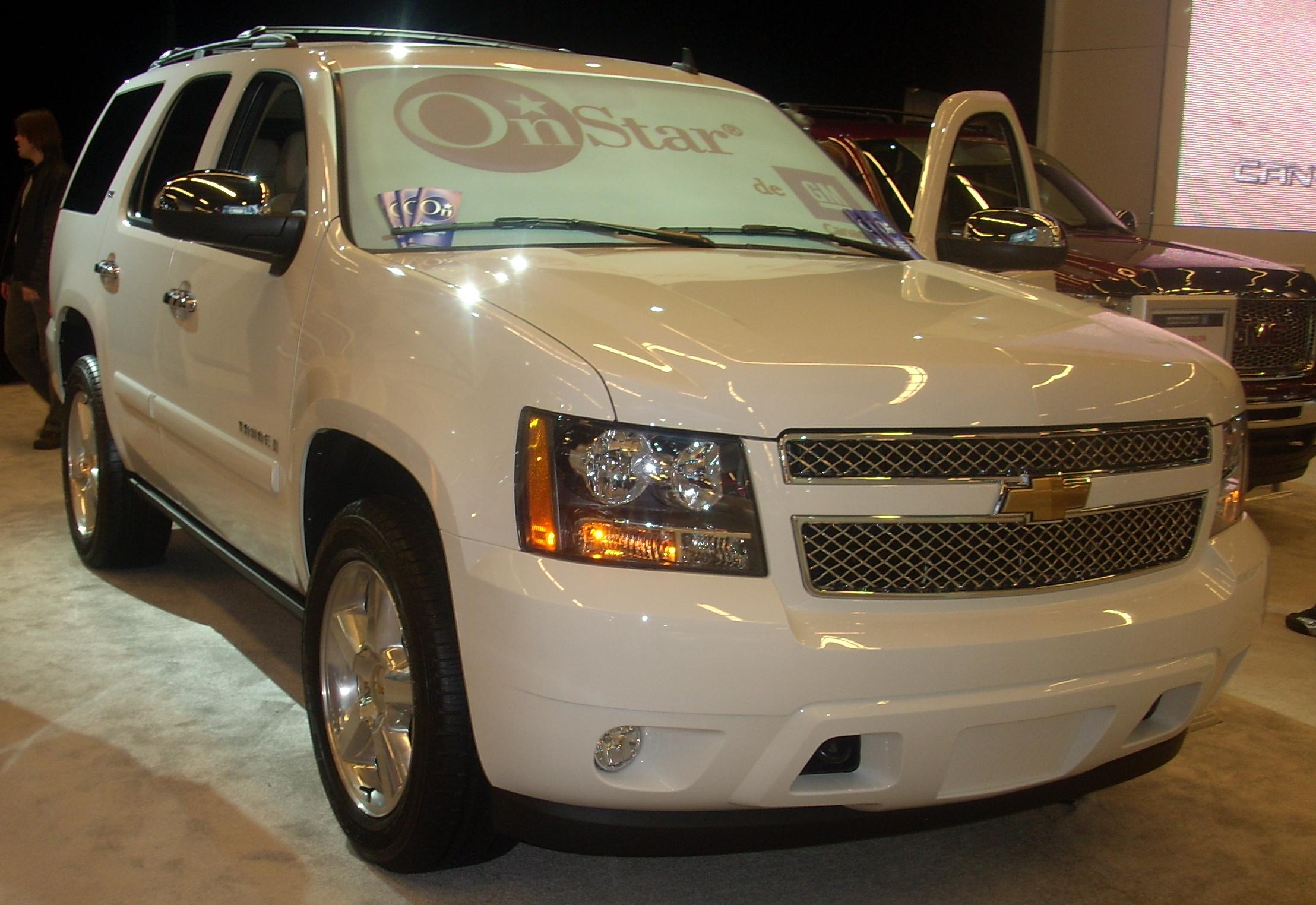 2008 Chevrolet Tahoe photographed at the Montreal Auto Show.